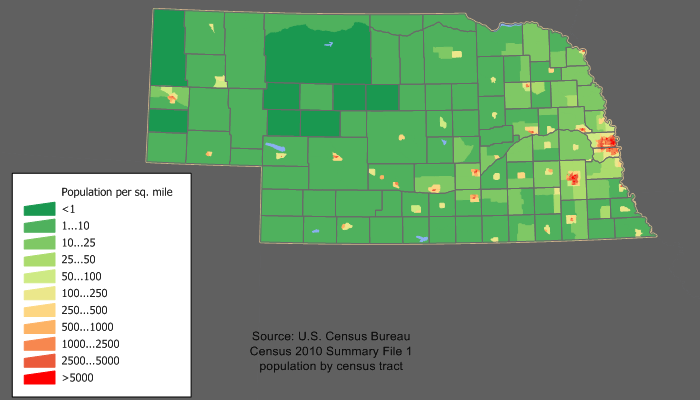 Nebraska state population density map based on Census 2010 data. See the data lineage for a process description.